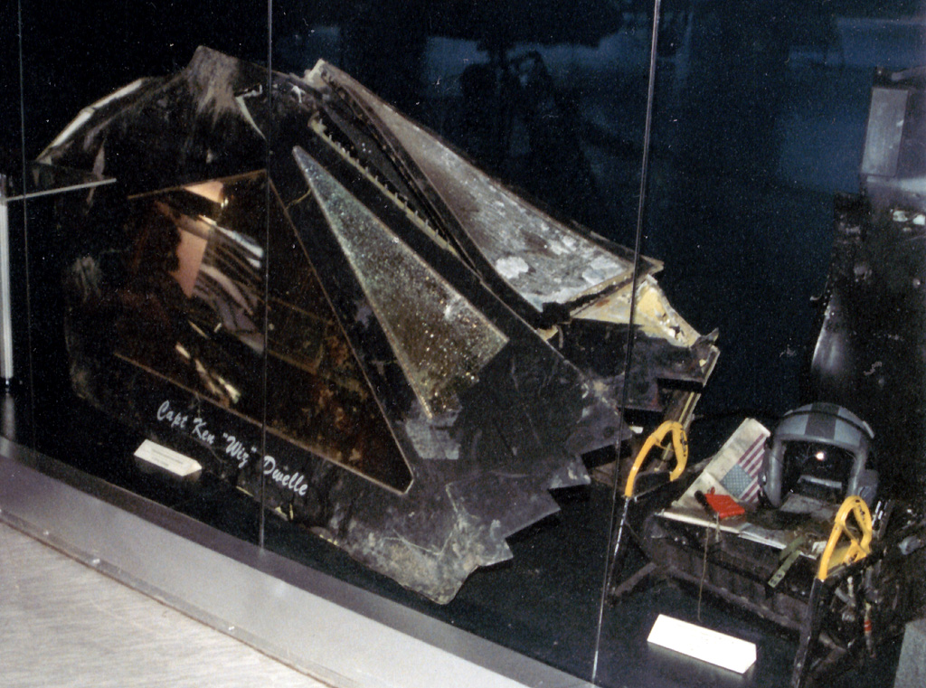 Canopy (left) and ejection seat and pilot's helmet and survival gear (right) from the F-117 shot down on March 27, 1999, near village Budjanovci, Yugoslavia.